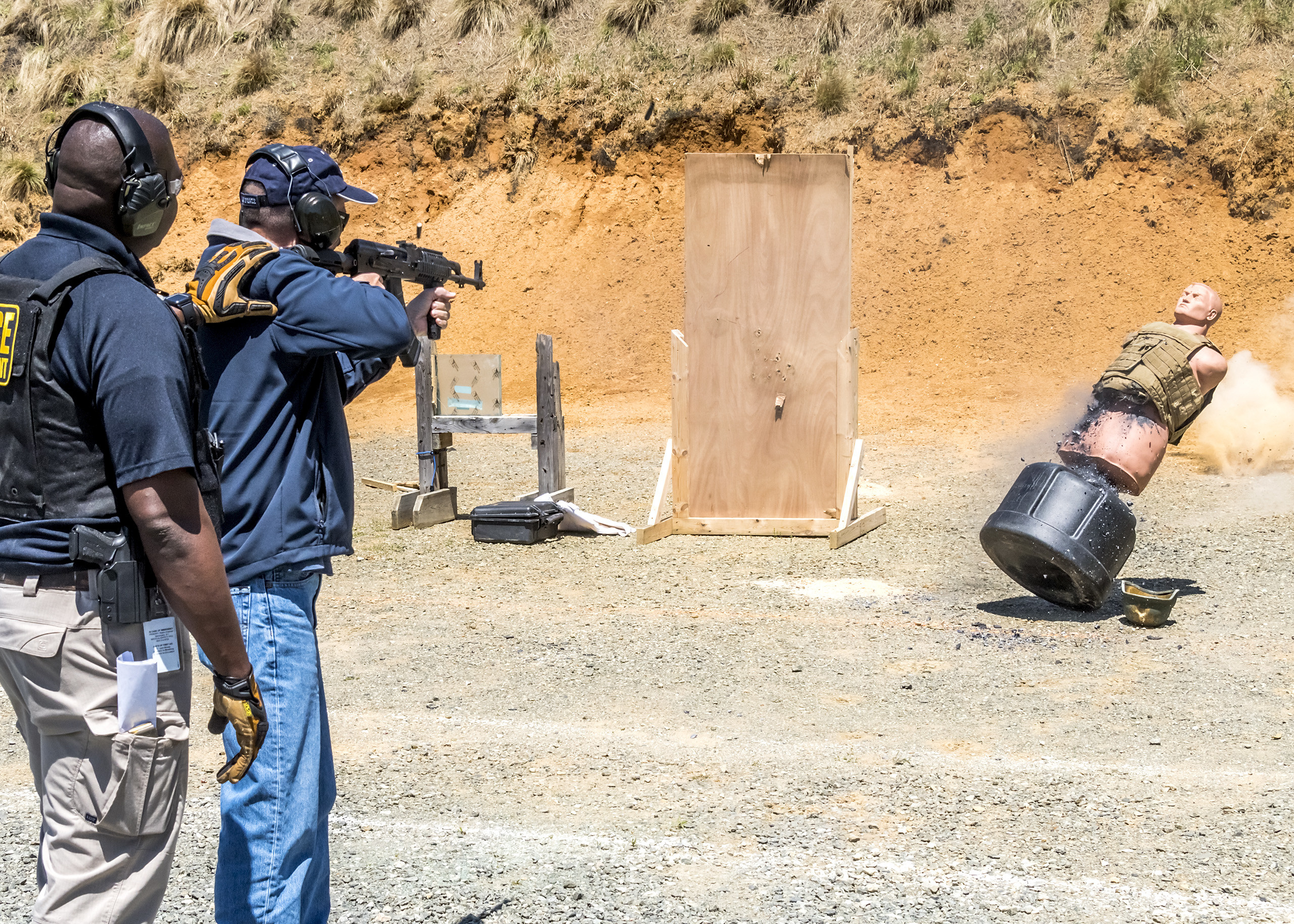 A participant fires an AK-47 with the guidance of a U.S. Air Force Special Investigations Academy (USAFSIA) Instructor during the weapons familiarization training of the Senior Leader Security Seminar at Montross, VA., April 30, 2018.